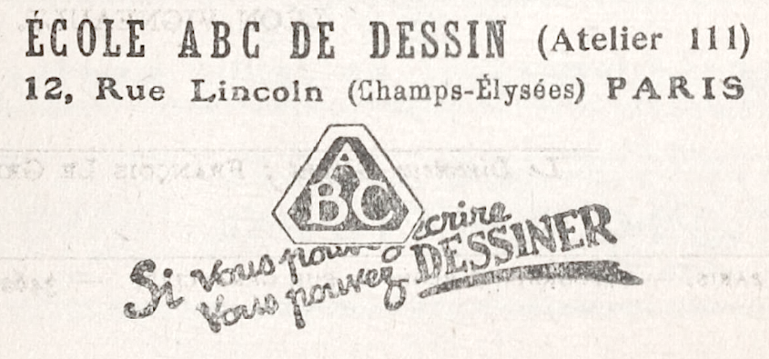 Ecole ABC de dessin, logo and branding extracted [croped image] from an advertising flyer.